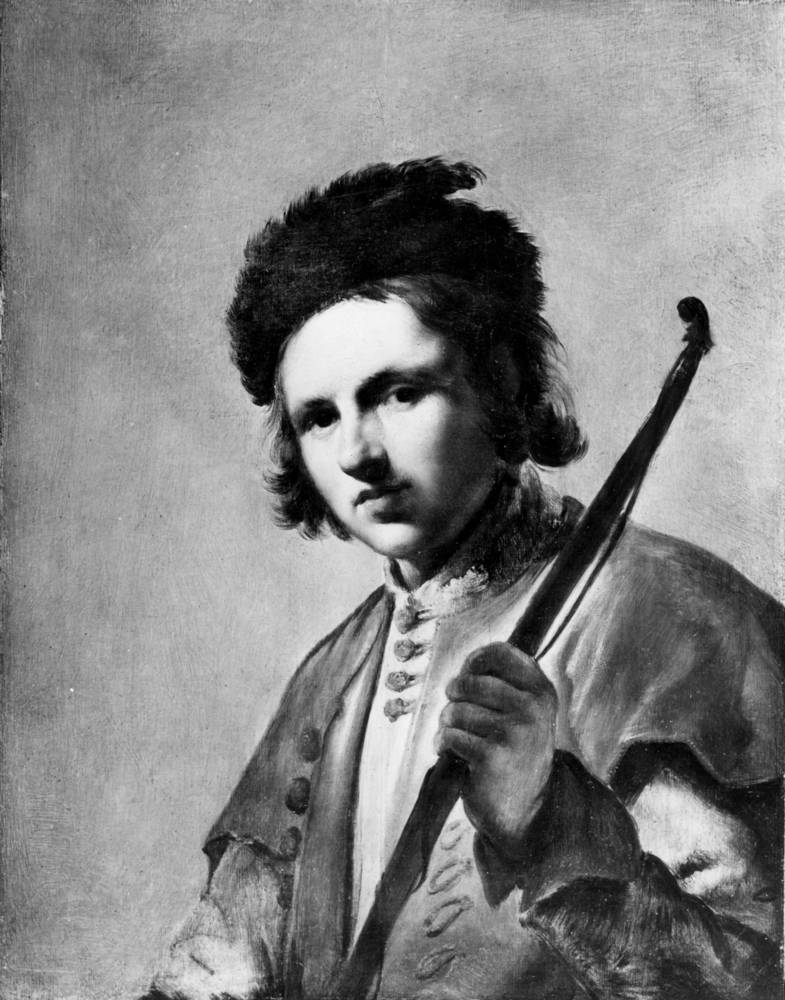 'Young man with a bow', by Pieter de Grebber, painted in 1631. This painting was part of the collections of the Gemäldegalerie Alte Meister in Dresden and and it has been missing since the end of World War II, in 1945. - Dimensions: 71 x 55,5 cm - Oil painting on wood